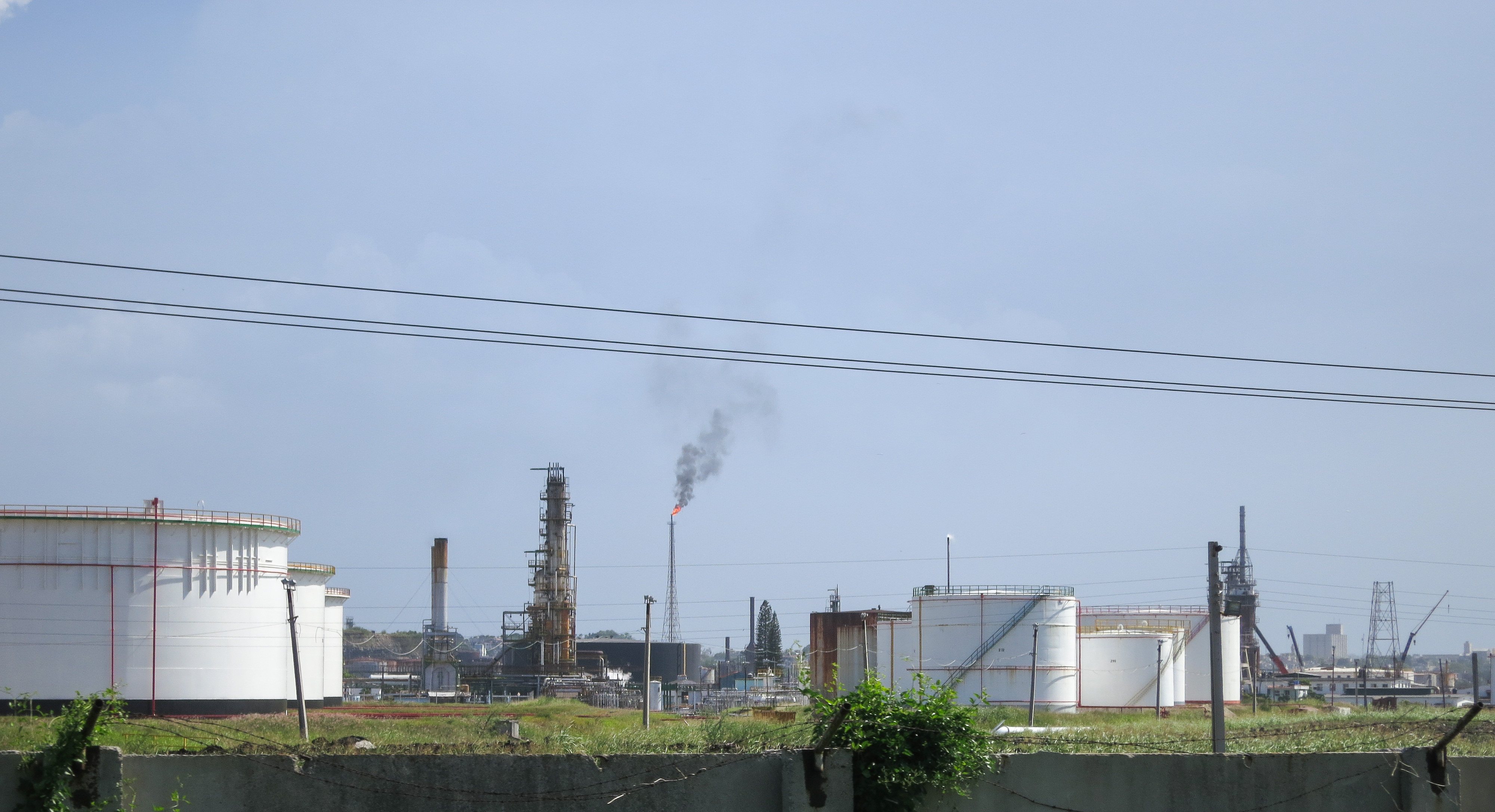 Oil refinery near Regla (Havana), Cuba.